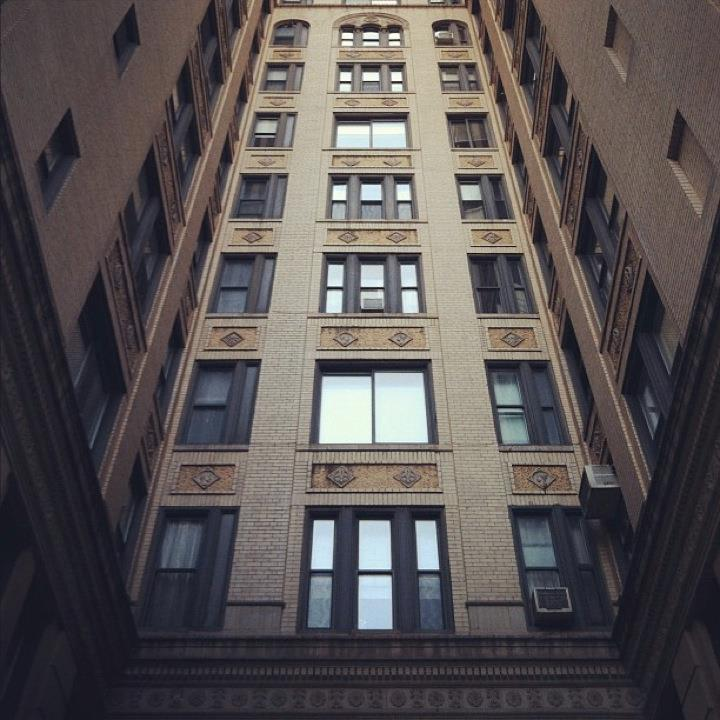 Looking up at The Turin from the main courtyard entryway. The building is twelve stories.